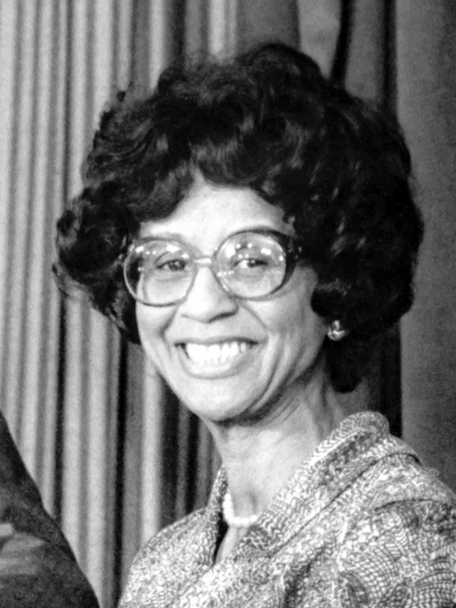 The Pentagon held a number of events for Black History Month between February 4th and February 15th 1980. On this day they presented awards to Dr. James Evans and Margaret Bush Wilson, the Chairman of the Board of Directors of the NAACP.